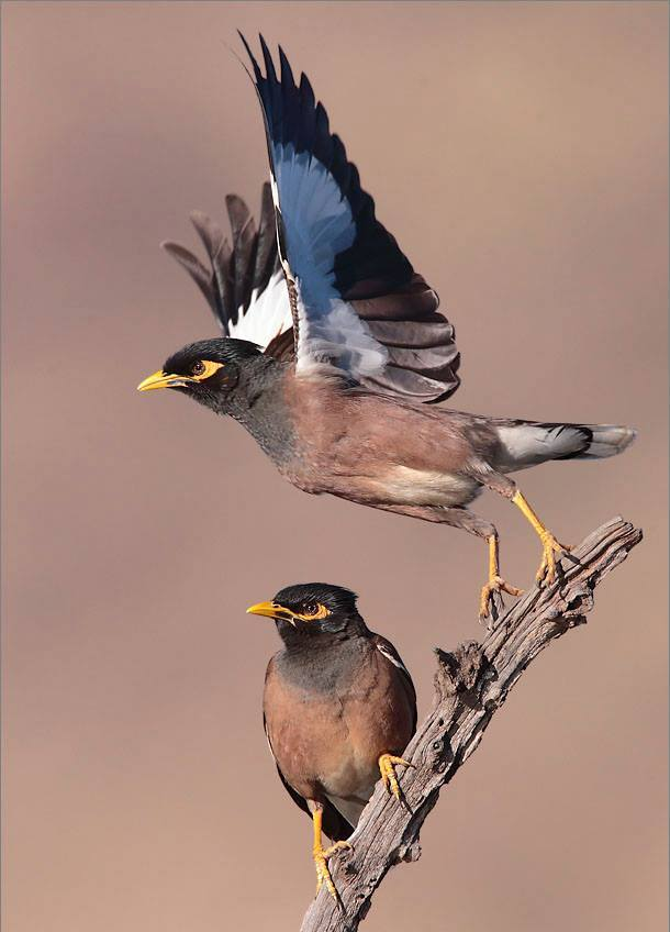 Acridotheres tristis (Linnaeus, 1766) - Common mynah, South Africa